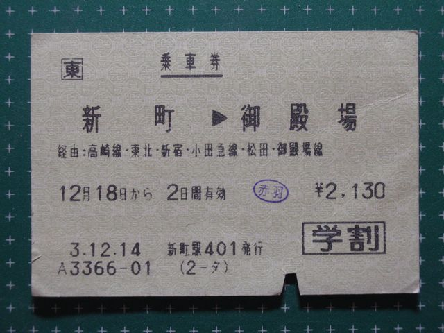 Ticket from Shinmachi to Gotemba